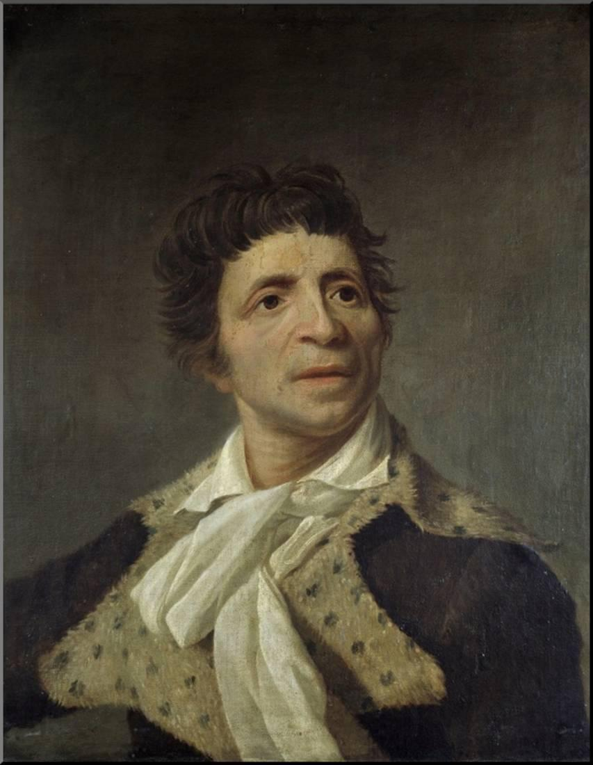 Portrait of Jean-Paul Marat (1743-1793)